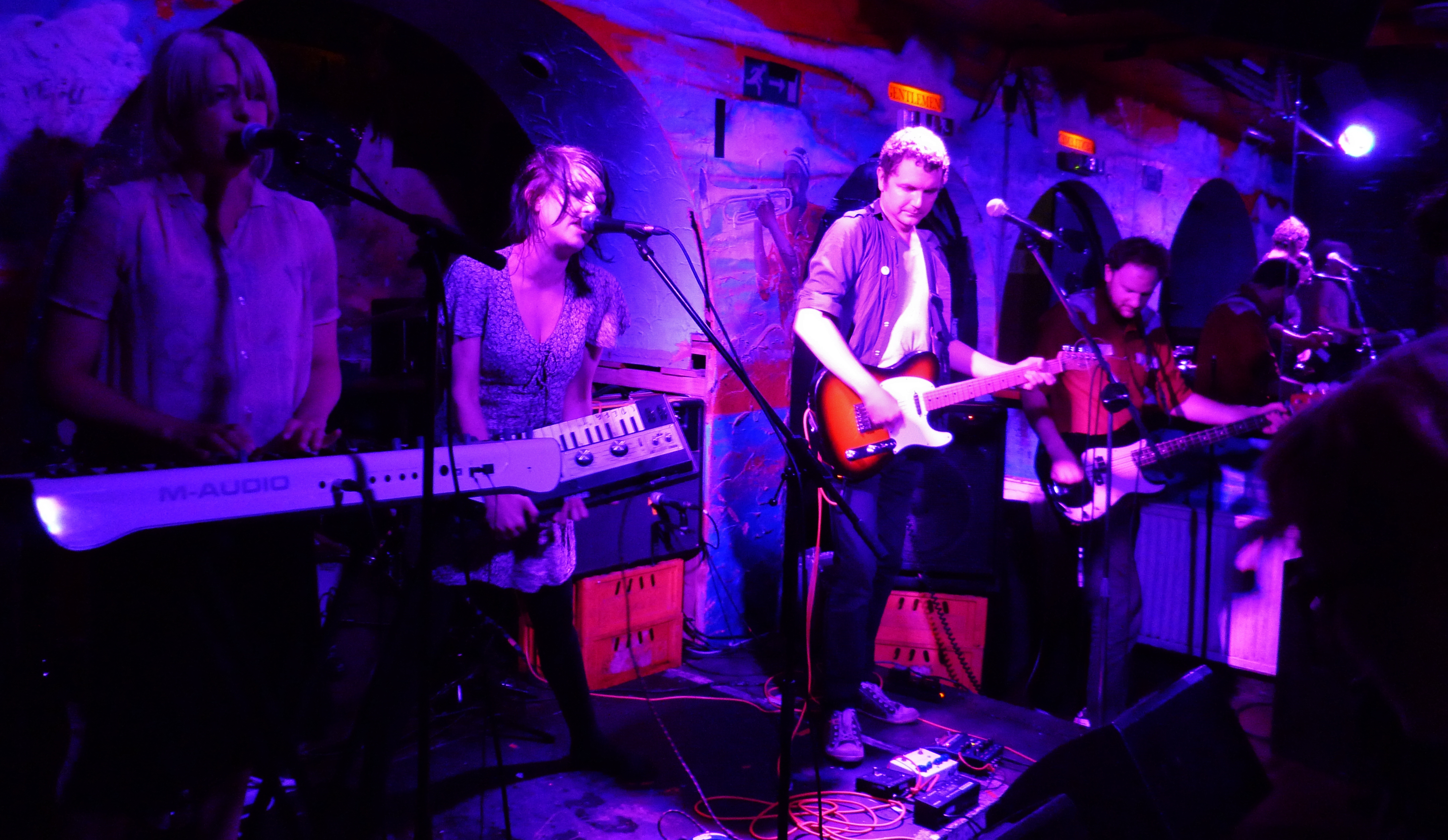 Shrag at the Shacklewell Arms, July 14th 2012.